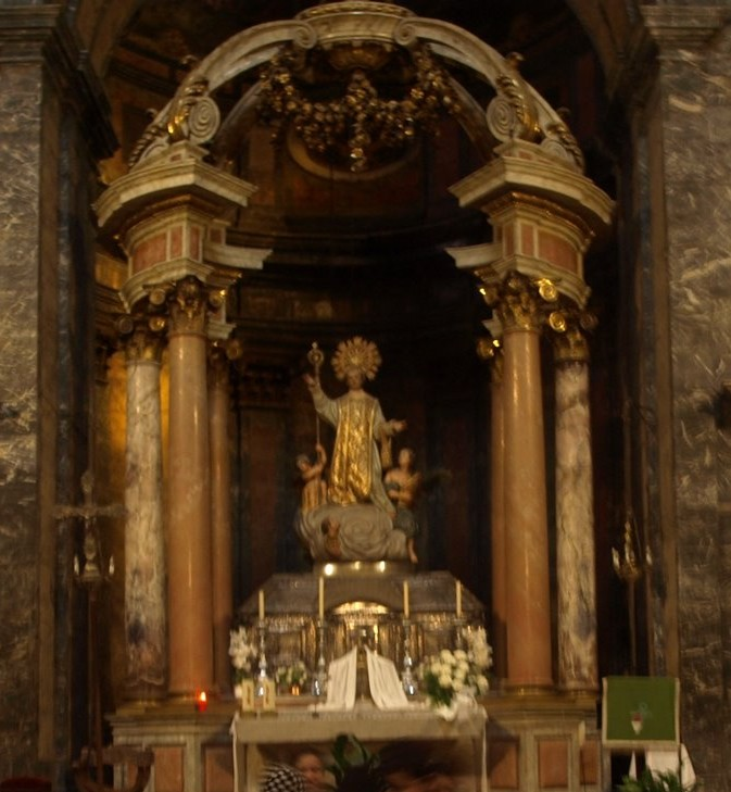 Chapel of Saint Narcissus, at Sant Feliu church, Girona.